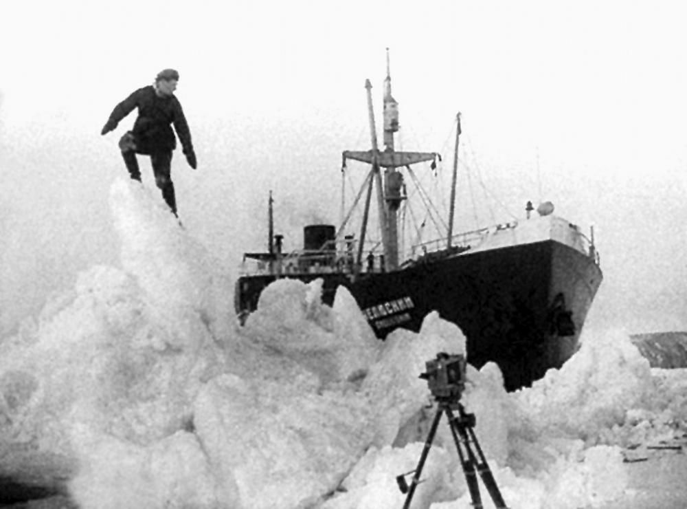 Cheliuskin. Photo by P. Novitsky. 1933